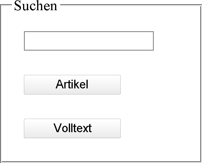 German example of a web form with CSS.